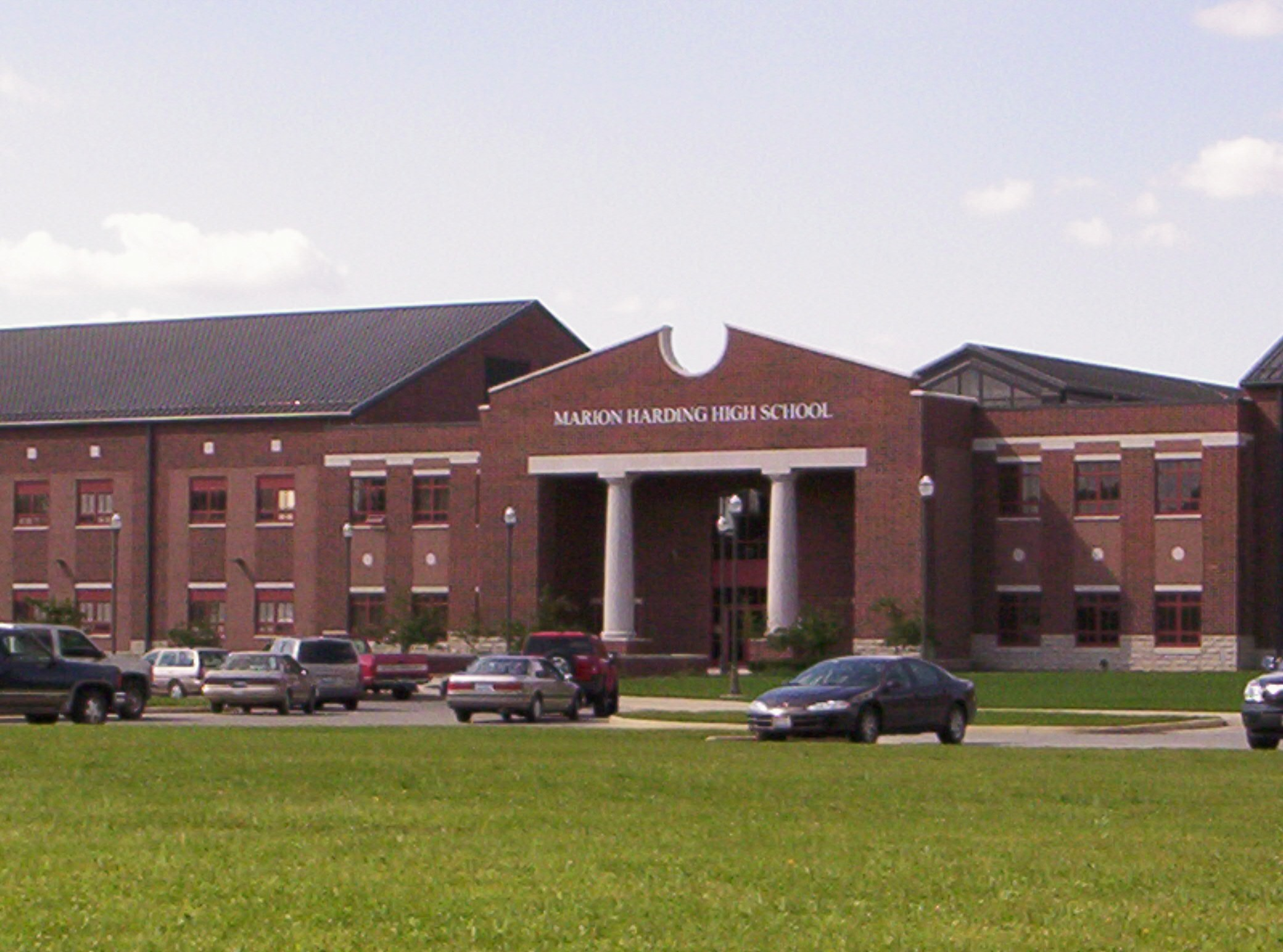 A view of Marion Harding High School in Marion, Ohio was taken by User OHWiki.